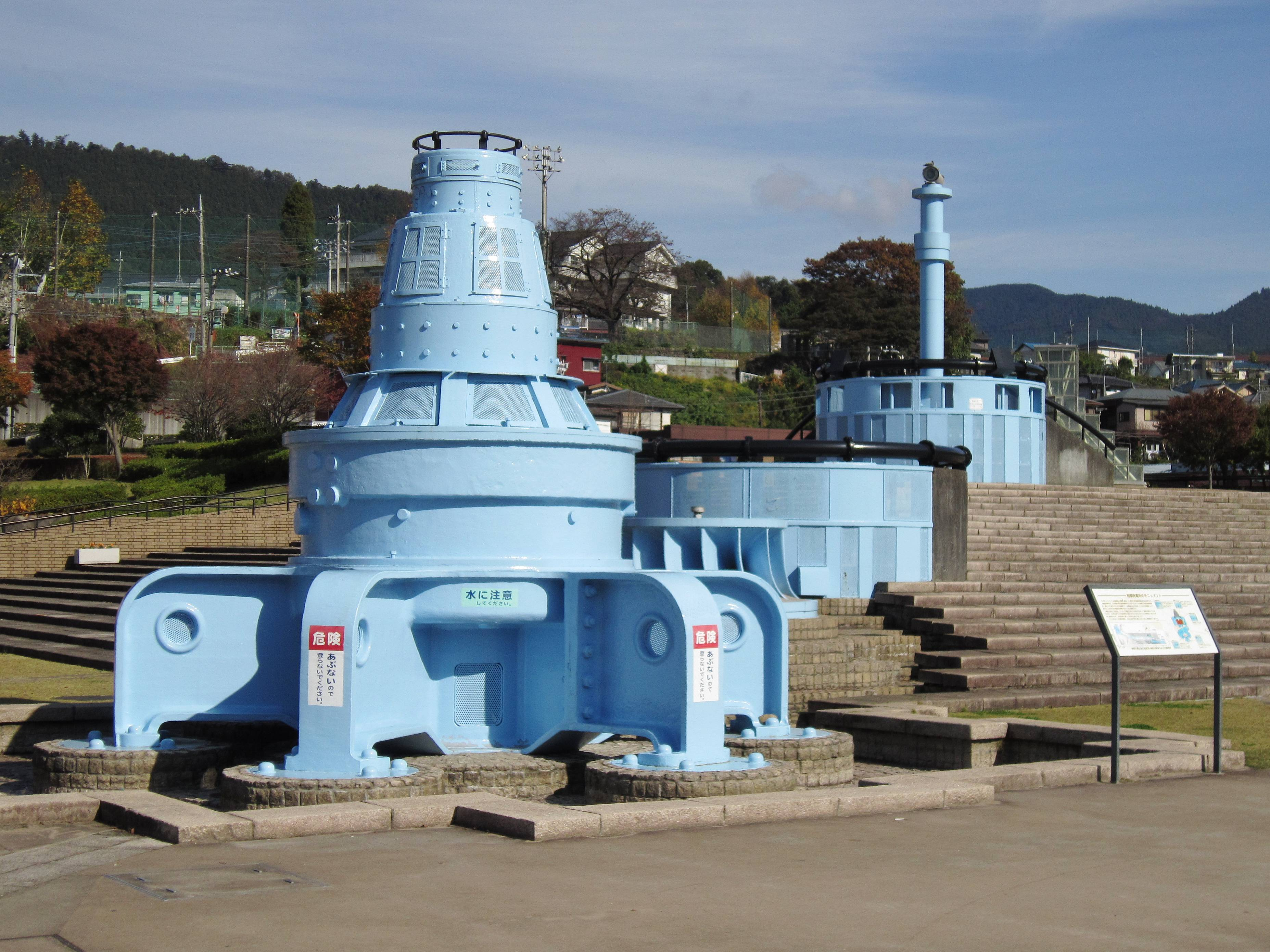 Kanagawa prefectural Sagamiko park Sagami power station turbine monument.